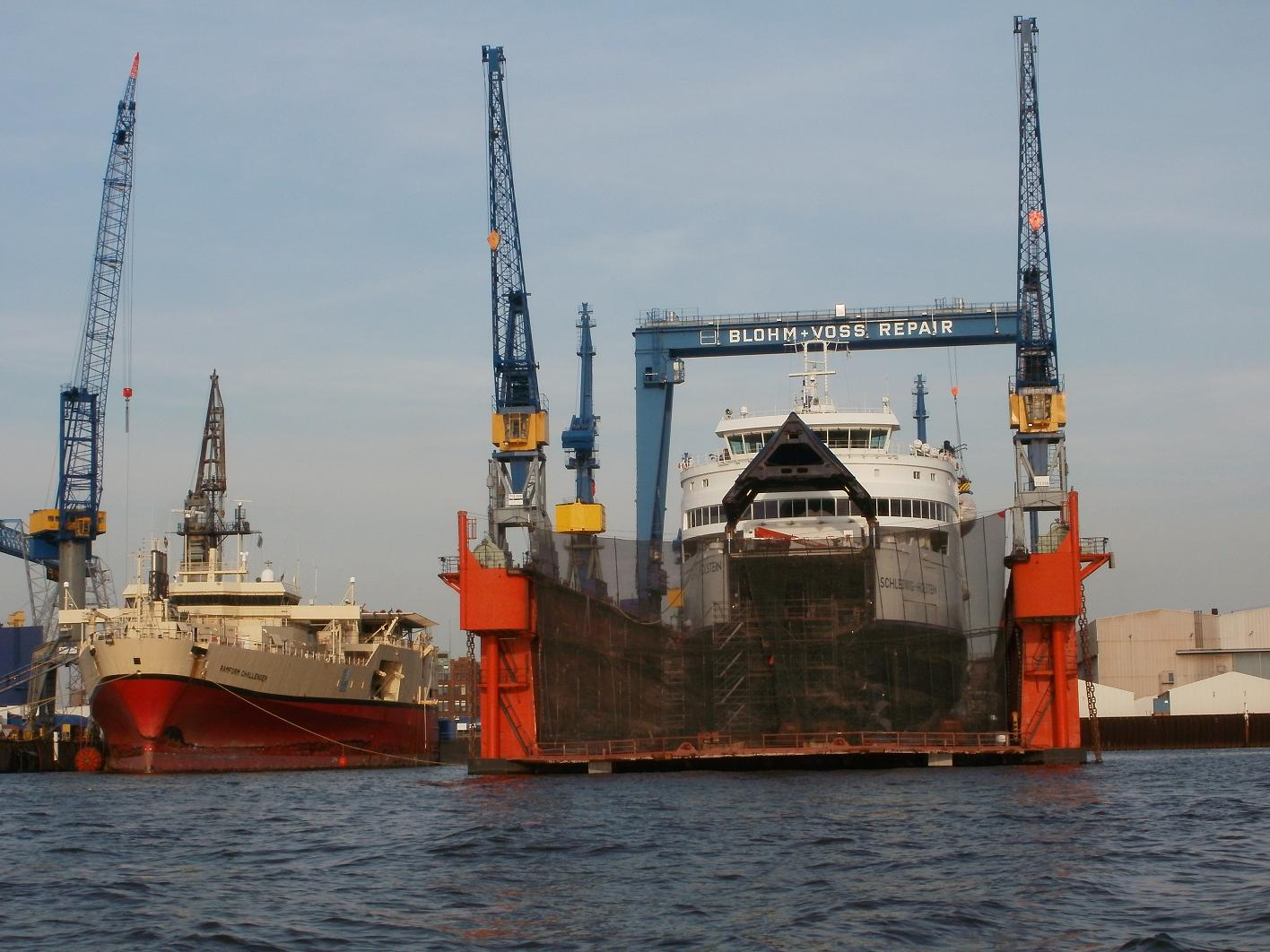 Dock of the shipyard Blohm and Voss in the harbor of Hamburg, Germany.